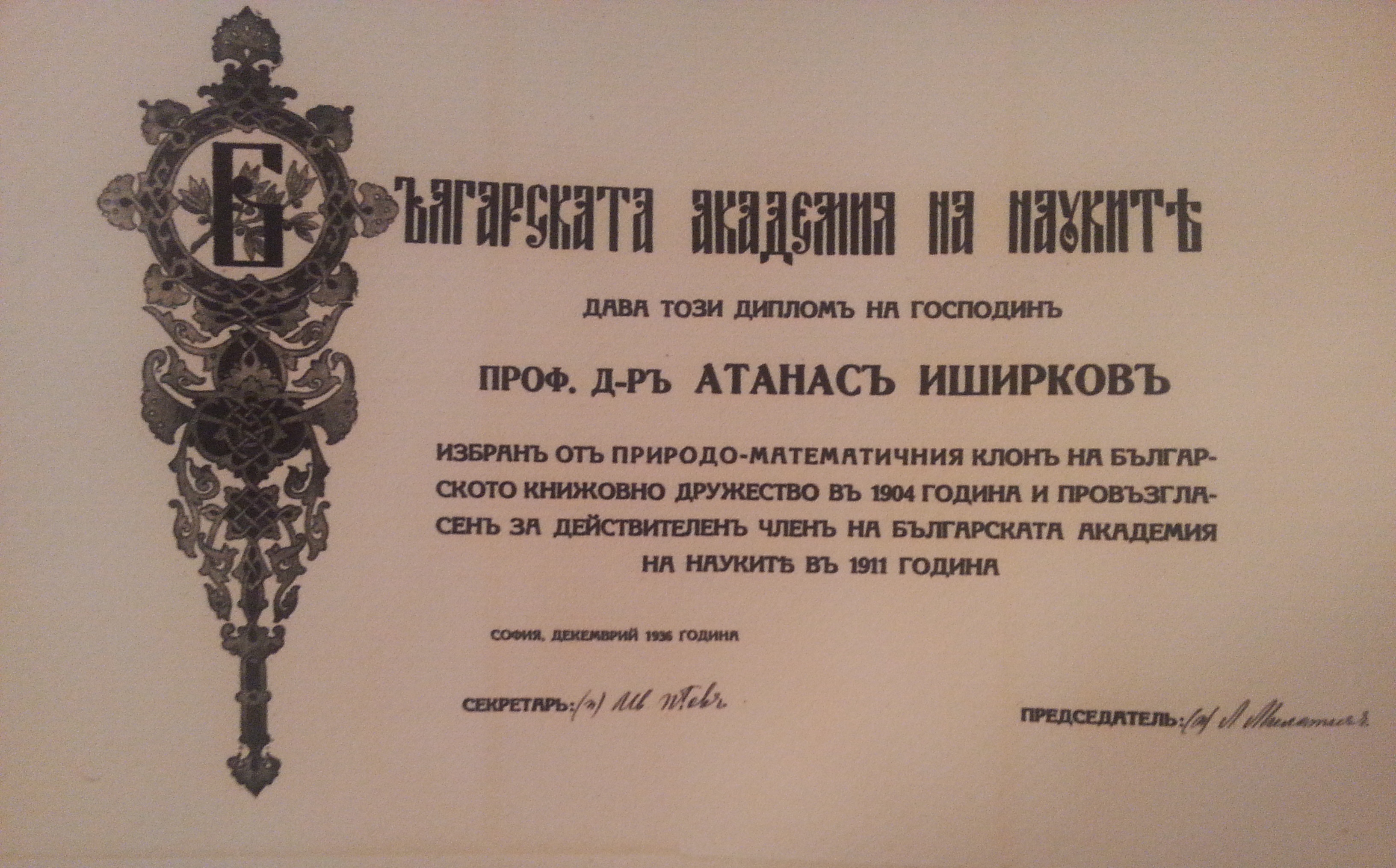 A diploma awarded to Prof. Dr. Anastas Ishirkov in 1911, when the Bulgarian Literary Society became the Bulgarian Academy of Sciences and he was re-appointed as an Academician of the Bulgarian Academy of Sciences.